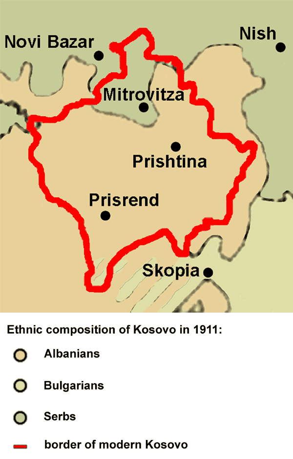 Ethnic composition of modern-day Kosovo in 1911 according to the Historical Atlas (New York, Henry Holt and Company, 1911) by William R. Shepherd.